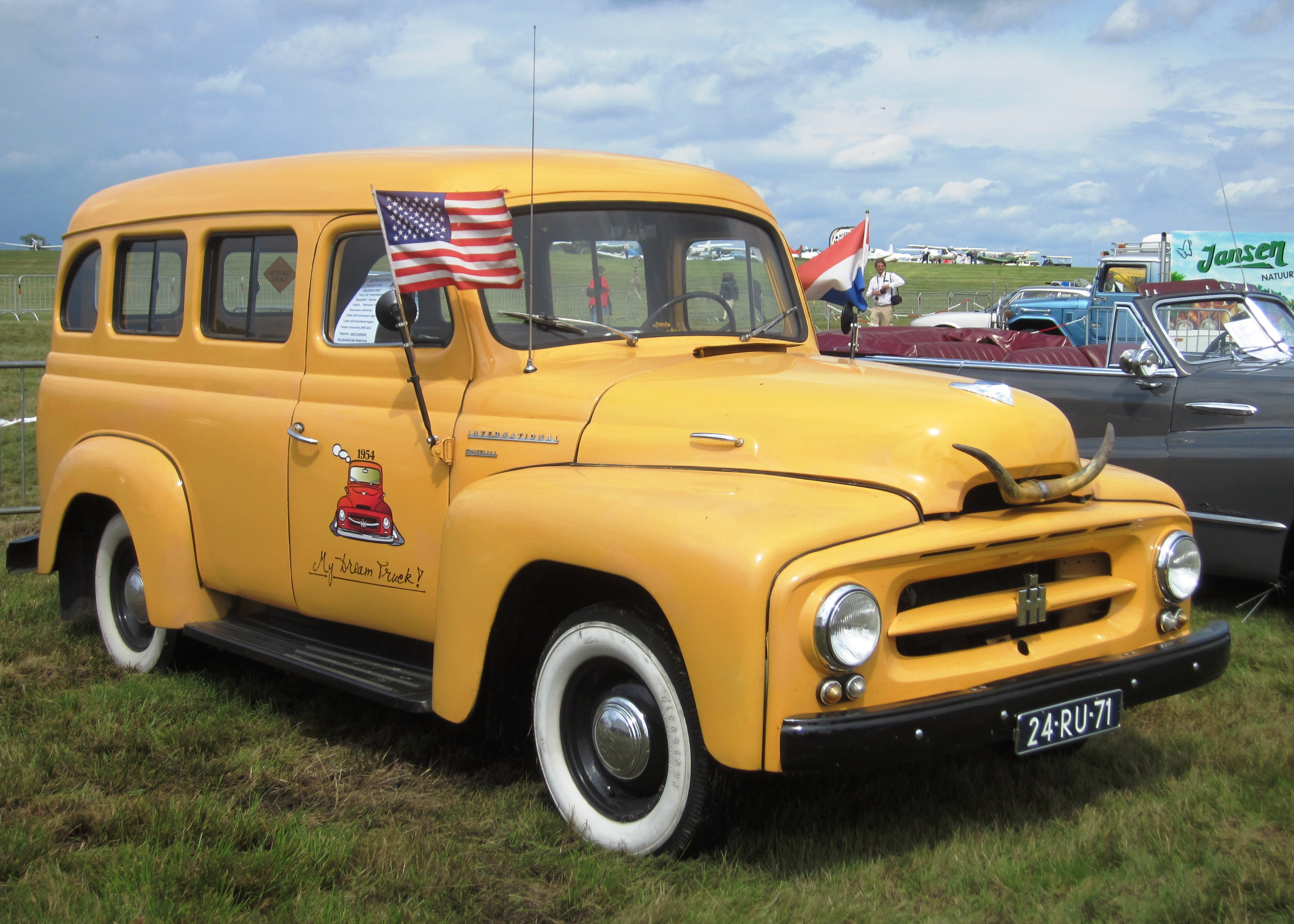 International R-110 (1954)